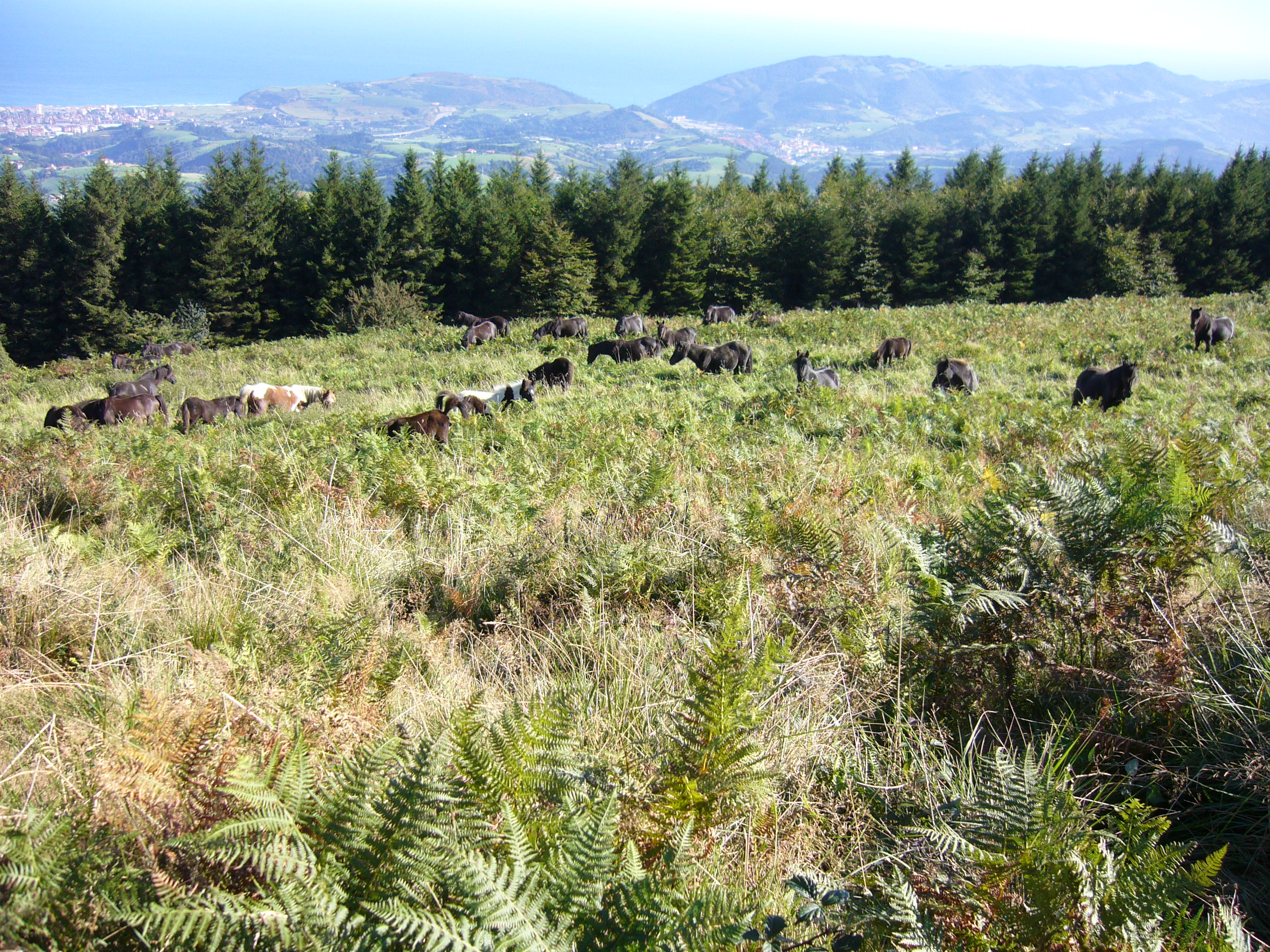 Pottokak Pagoetako parke naturalean